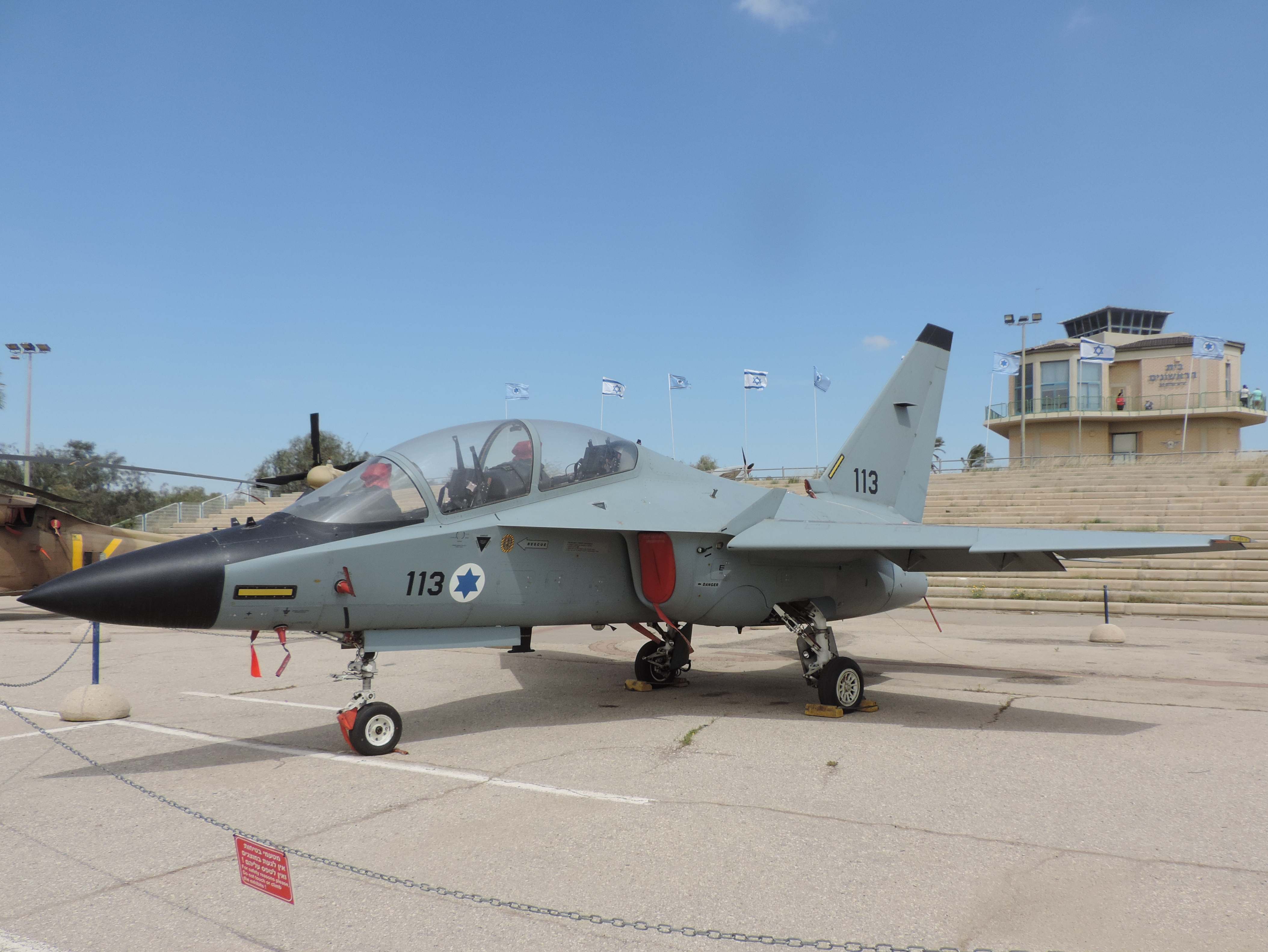 M-346 of the Israel Air Force at the Israeli Air Force Museum.